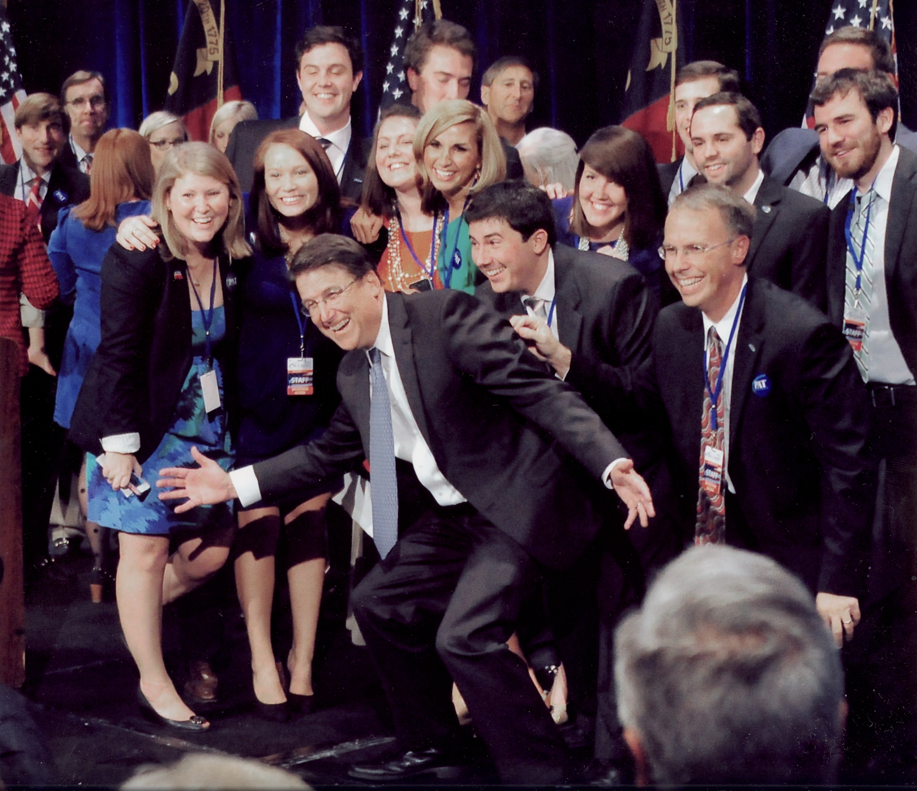 Pat McCrory celebrating in a group at the Westin in Charlotte, NC, on election night 2012 (6 November 2012). Republican Pat McCrory defeated Democratic candidate Lt. Gov Walter Dalton and Libertarian candidate Barbara Howe to become North Carolina’s 74th governor. Photo was taken by a Charlotte Observer newspaper photographer and sent by the Charlotte Observer to Lisa Frazier, Pat McCrory’s Executive Assistant, who donated the print to the State Archives January 2, 2013. Depicted are the following ID’d by Liz McLean, Governor’s Page Coordinator for McCrory (roughly l-r): Two unidentified men, an unidentified red-haired woman with back to camera, unidentified partially obscured light-haired woman in black glasses, two of of these unidentified people are Katy Morrow Harvey and Matt Harvey), Reston Jones, unidentified partially obscured light-haired woman, Heather Jeffreys, possibly Pat McCrory’s brother (?) standing behind Heather Jeffreys, Pat McCrory leaning out in very front, Morgan Beam behind McCrory, Meredith McCullen (green dress), two unidentified men standing behind Beam and McCullen, Zan Pope, leaning over just behind Pat McCrory, Lindsey Morton, Billy Constangey (face partially obscured), Dustin Evans, Andy Lancaster (with hand on McCrory’s shoulder), Thomas Evins (only top of head and one shoulder visible), and Matt McKillip. Photograph Collections, State Archives of North Carolina.